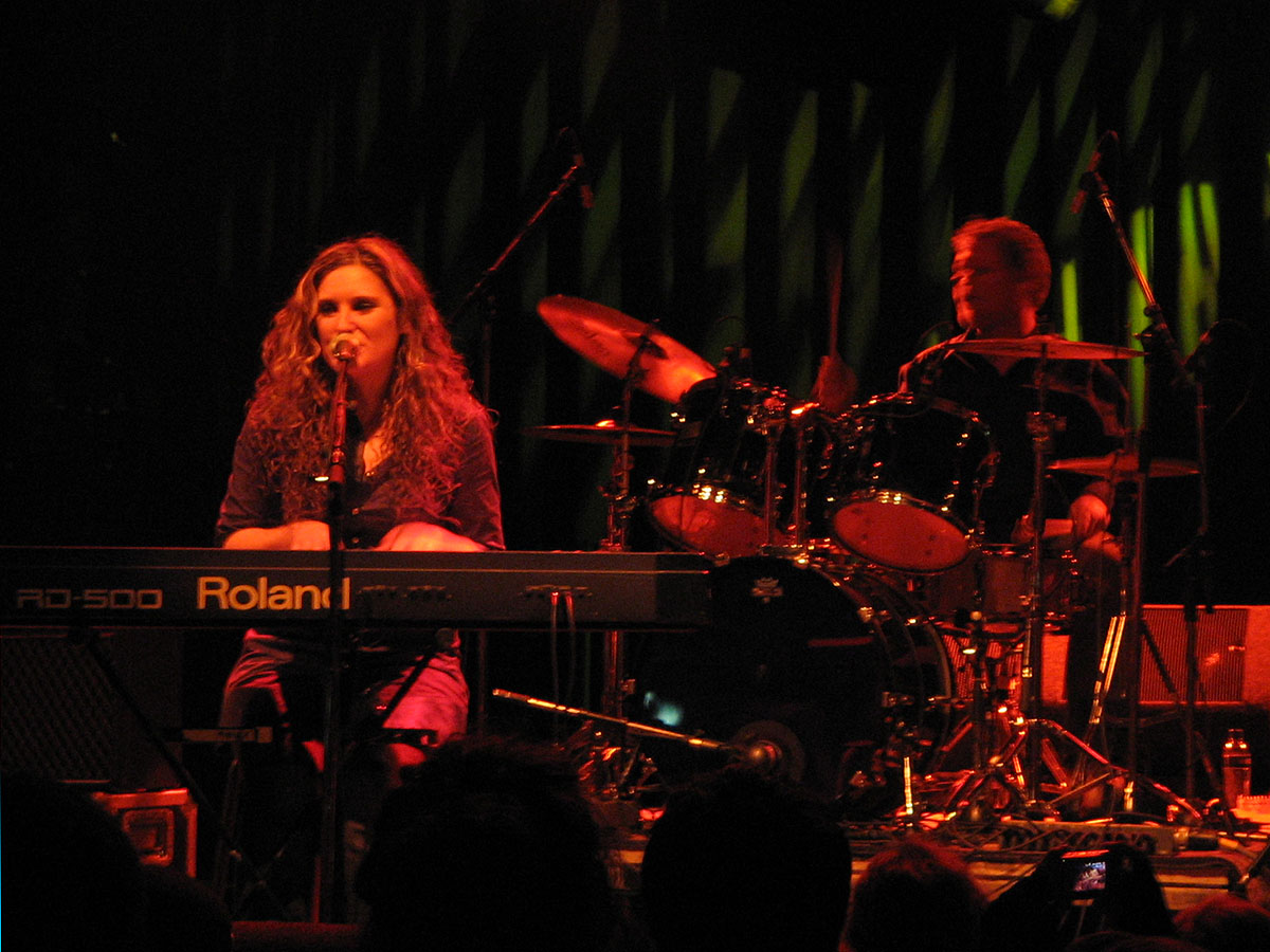 Christian singer Sarah Kelly during a 2007 concert.